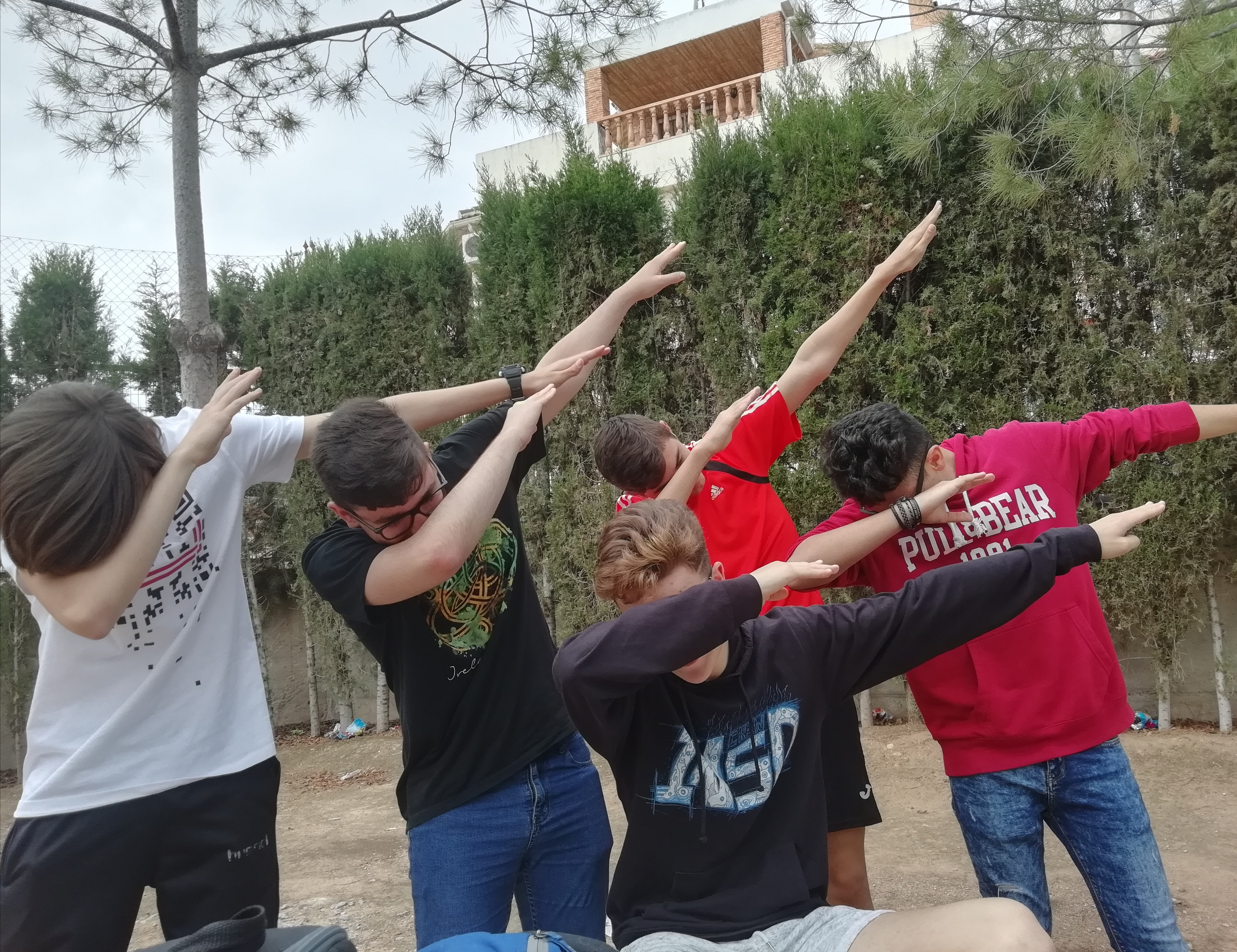 Chicos muy guays haciendo un Dab